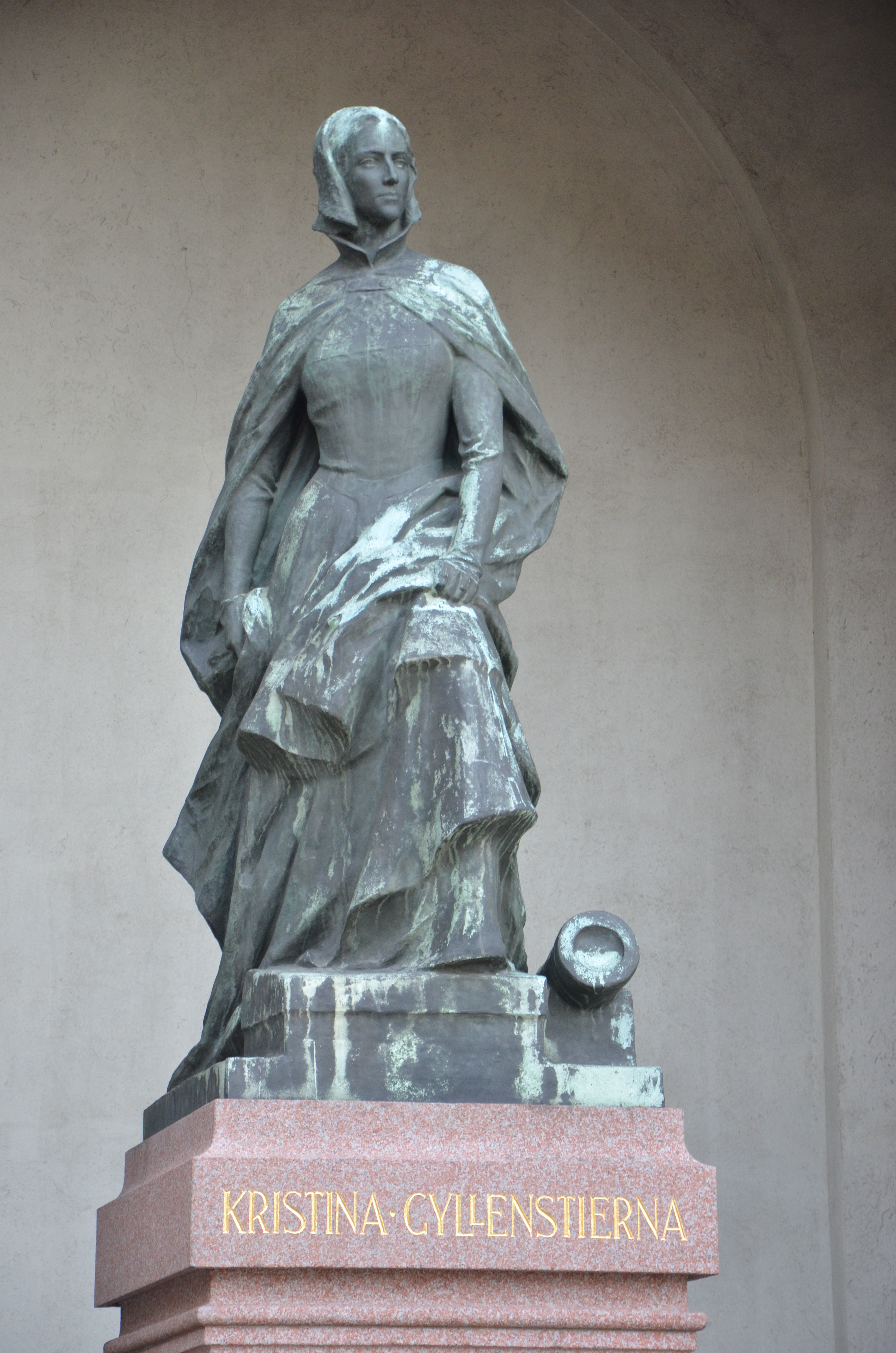 Theodor Lundbergs Kristina Gyllenstierna